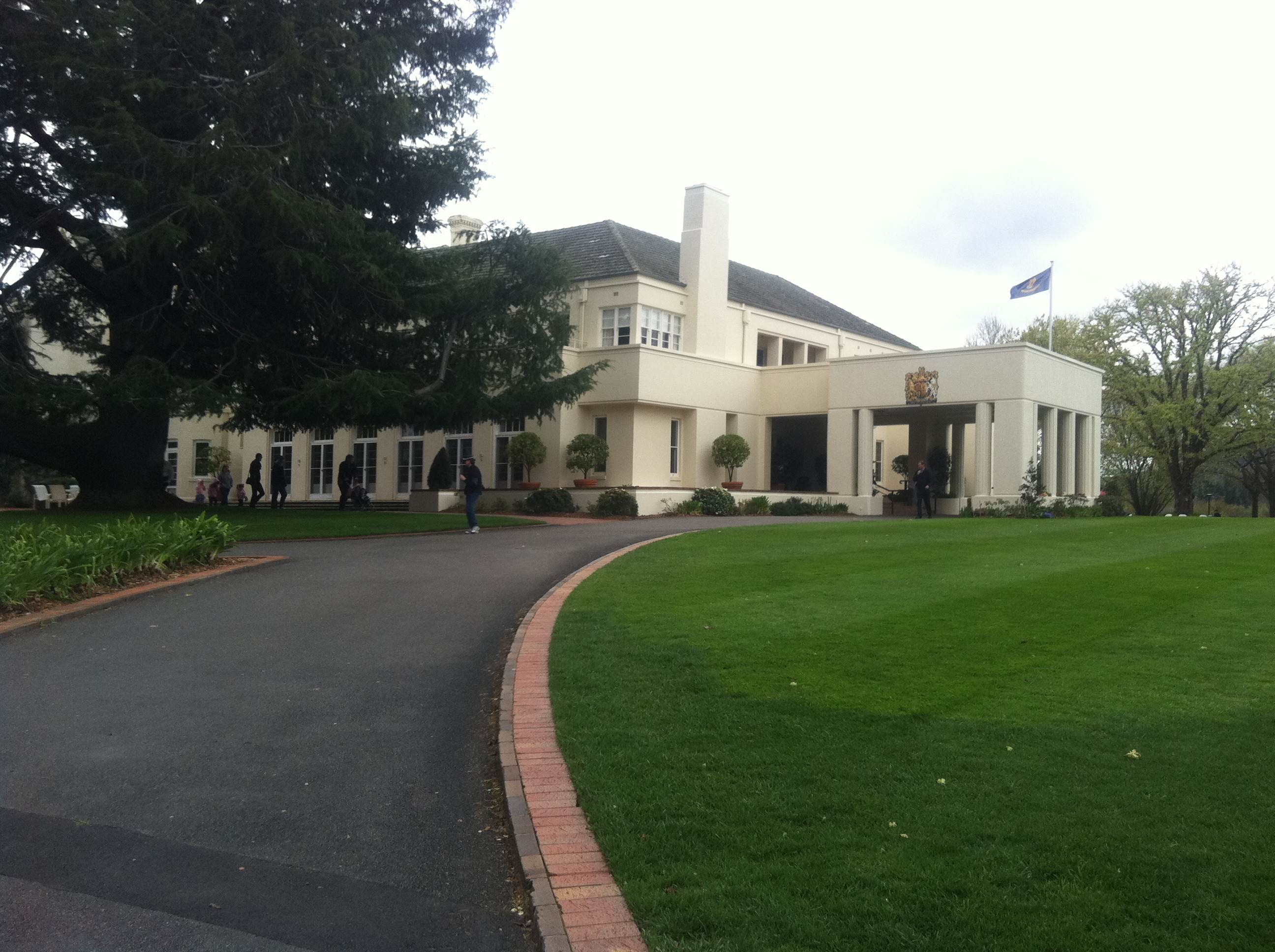 Government House, Canberra